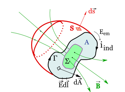 Drawing can be used to explain the law of Maxwell-Faraday